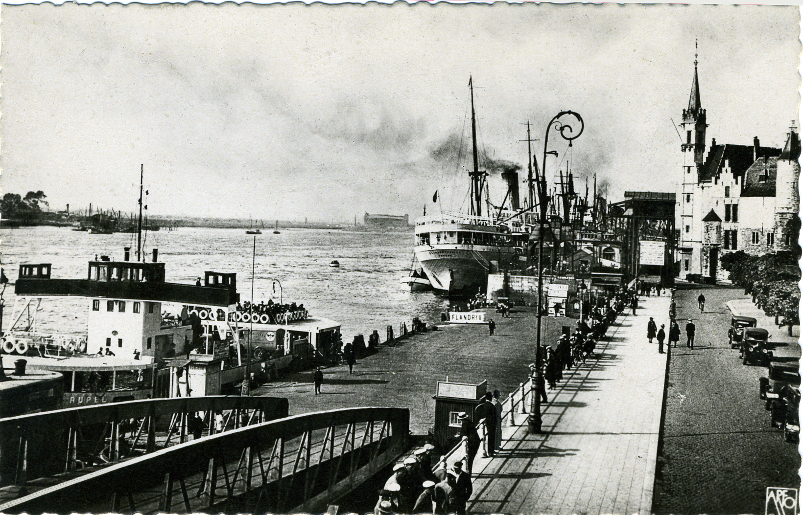 Postcard of Antwerp on the Scheldt by "het Steen".